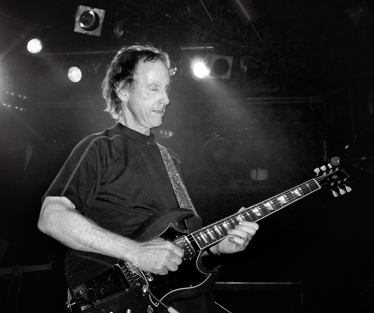 Robby Krieger playing guitar in London